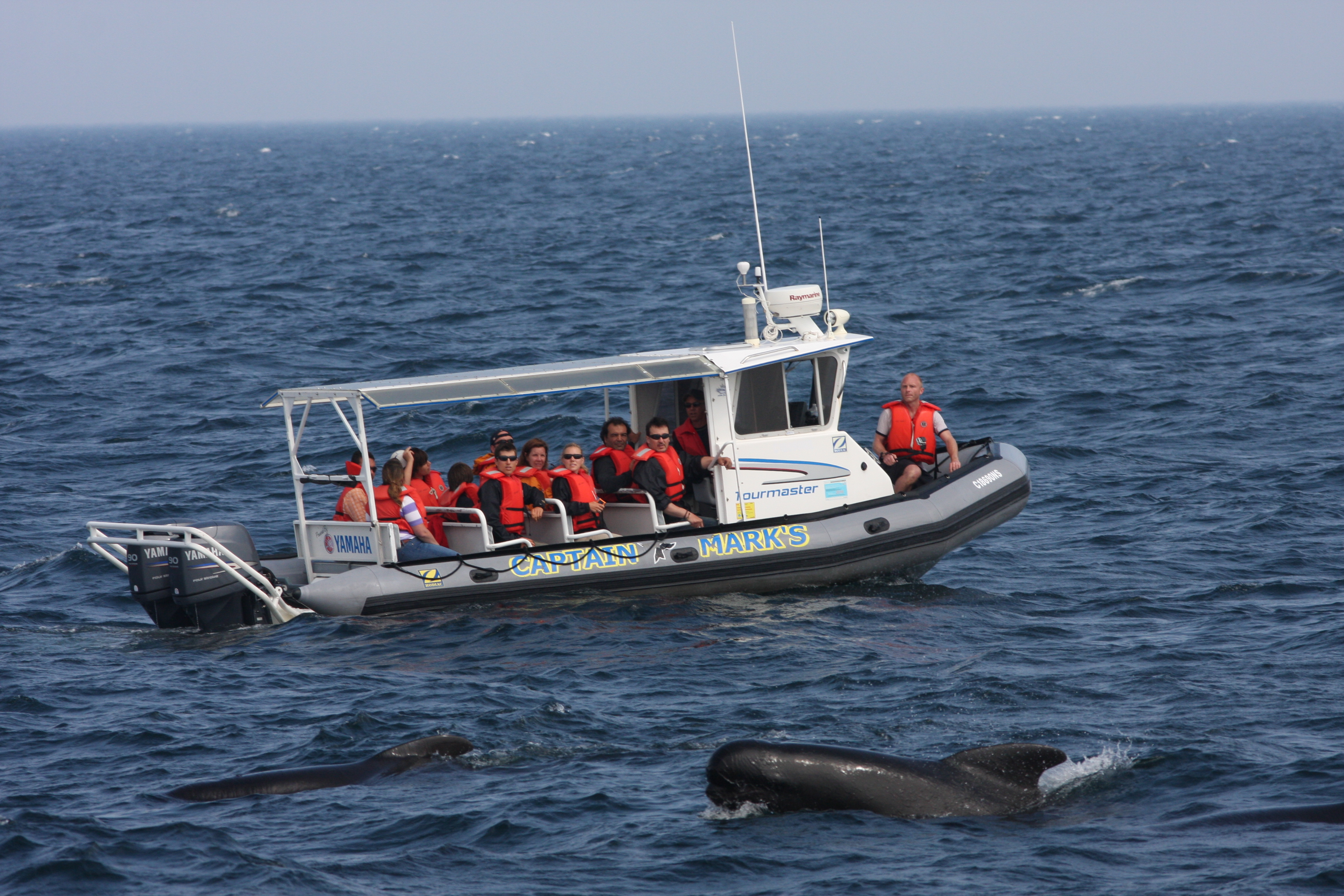 Whale-watching vessel with long-finned pilot whales off Cape Breton, Nova Scotia, Canada